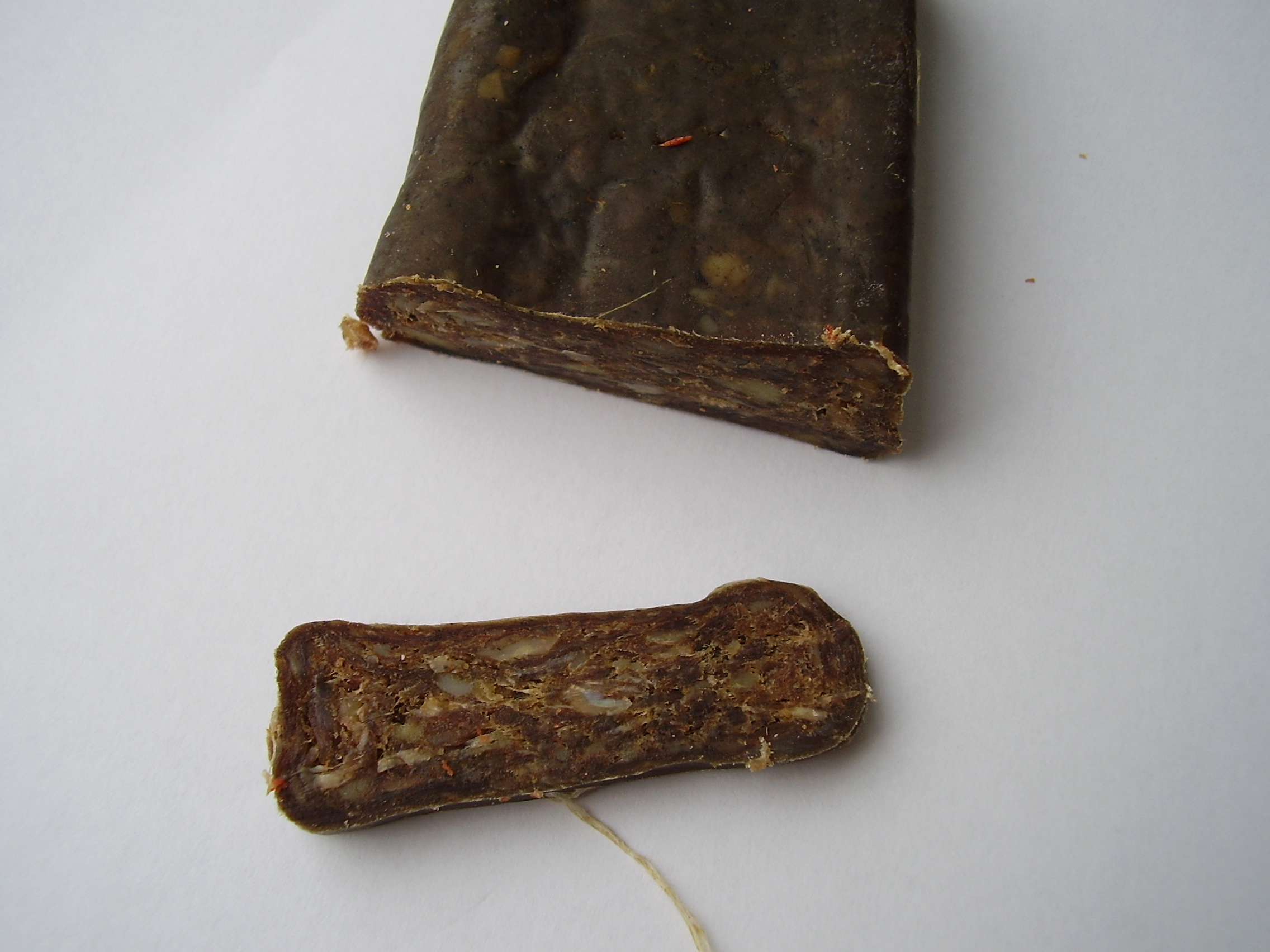 Суджук, Sudzhuk from Armenia